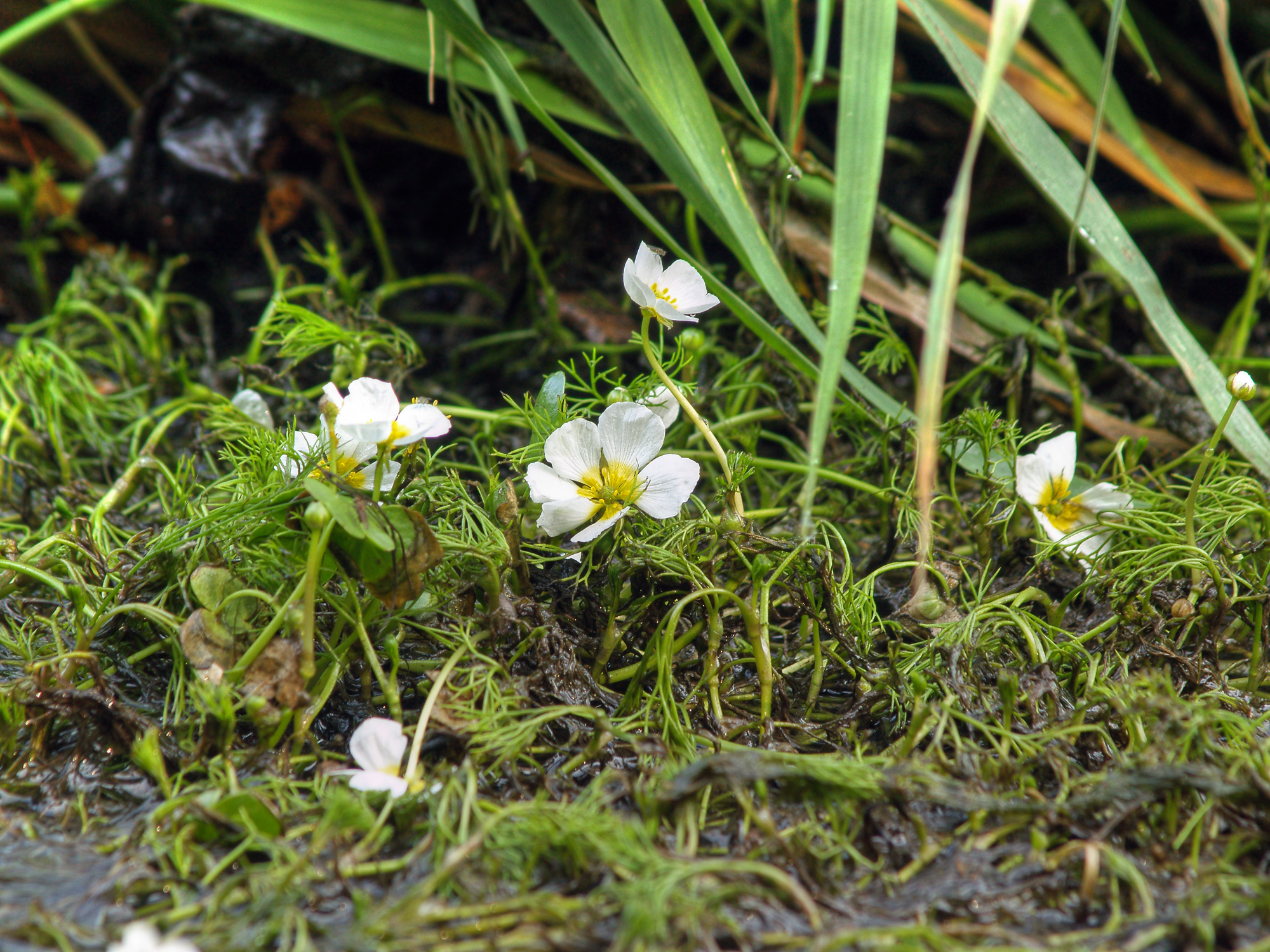 Ranunculus circinatus, Chemnitz, Germany